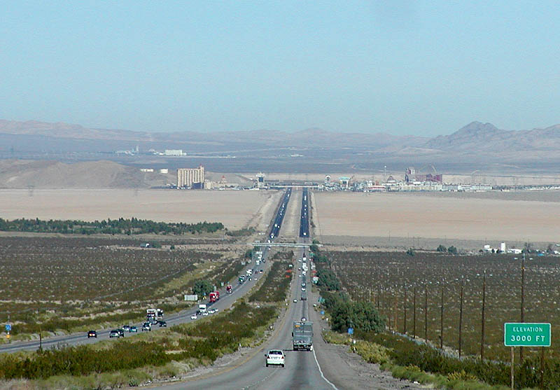 Photo of Ivanpah Valley seen from Interstate 15 in California/Nevada Northbound, I-15 makes a steep descent from Mountain Pass into the Ivanpah Valley. In the middle distance, the casinos of Primm straddle the freeway right at the Nevada border, while those of Jean are further off, to the left; Las Vegas is immediately on the far side of the hills on the horizon.